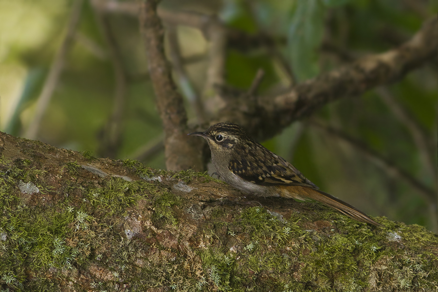 The species Brown-throated Treecreeper had been photographed during the birding tour of GoingWild at Pangolakha Wildlife Sanctuary in East Sikkim, India on 12.12.2015.